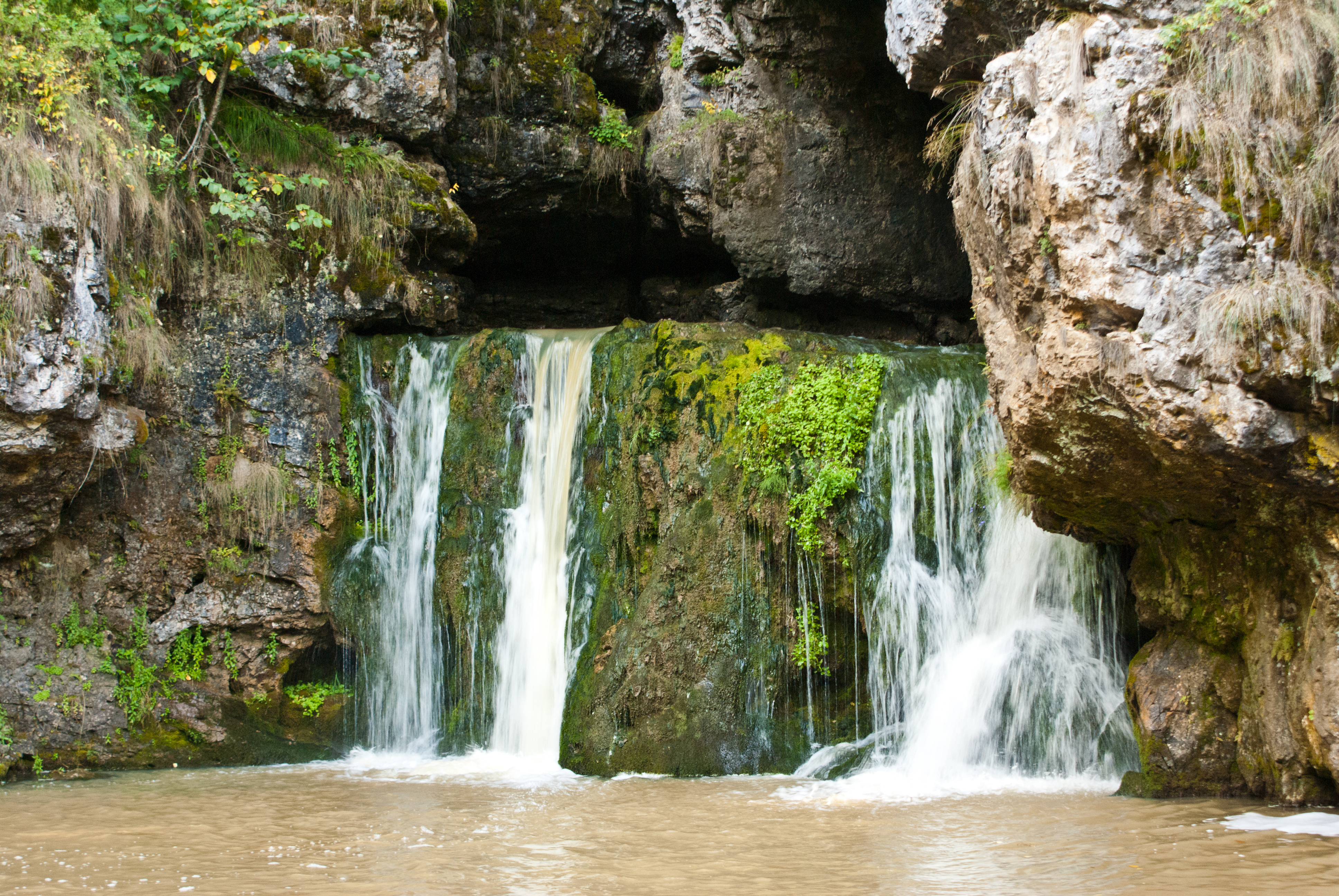 Atysh waterfall